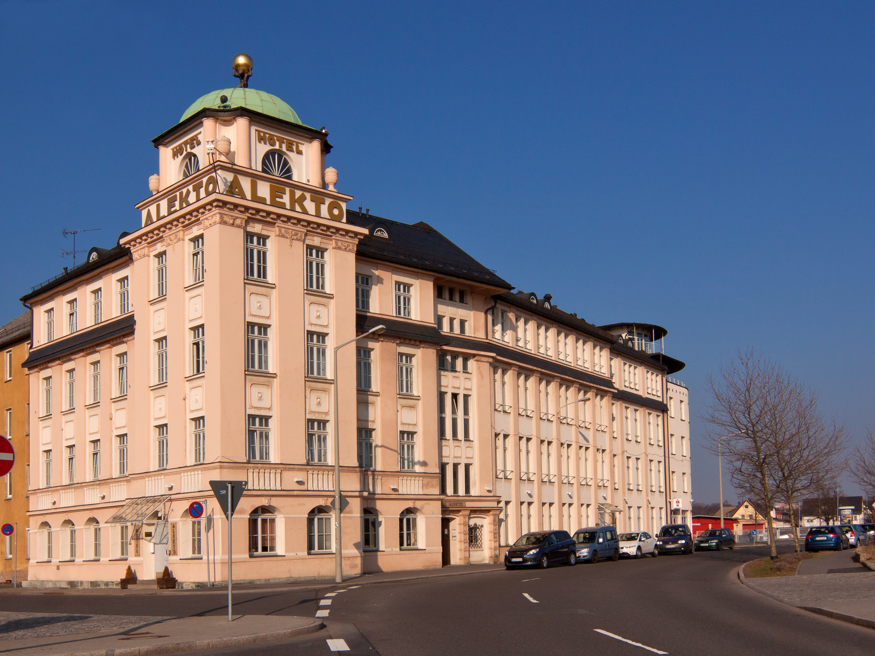 Freiberg, Hotel "Alekto" (former metal ware factory, address: Am Bahnhof 3)